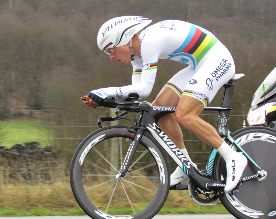 Tony Martin with World Champion ITT jersey